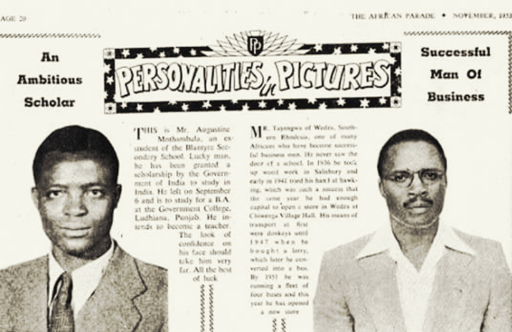 The African Parade Magazine Article Issued in November 1953. Article titled Success Man of Business